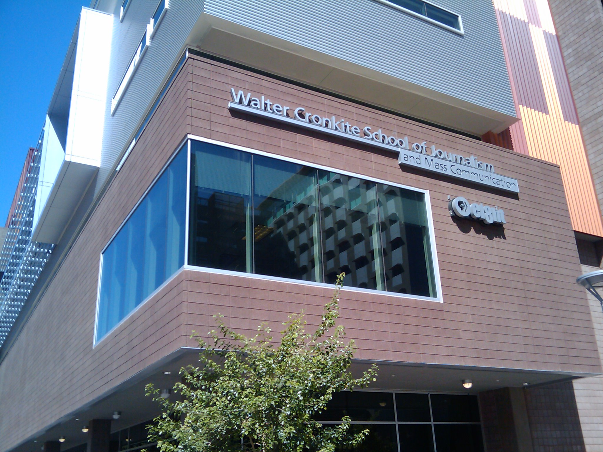 The building...